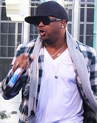 The-Dream performing on September 10, 2008 in Lenox Hill, New York